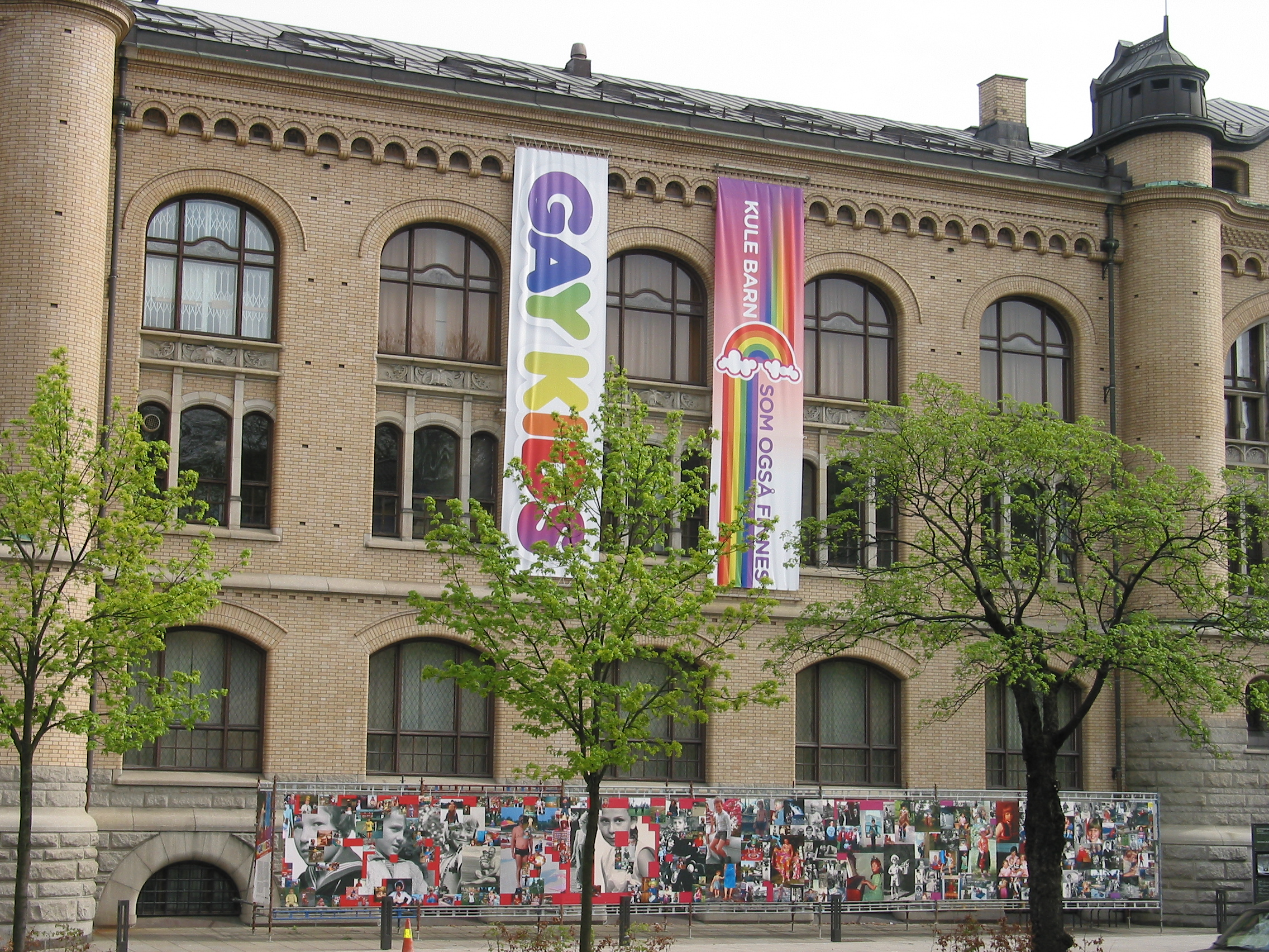 Gay Kids exhibit at the Museum of Cultural History, Oslo, May 2009.